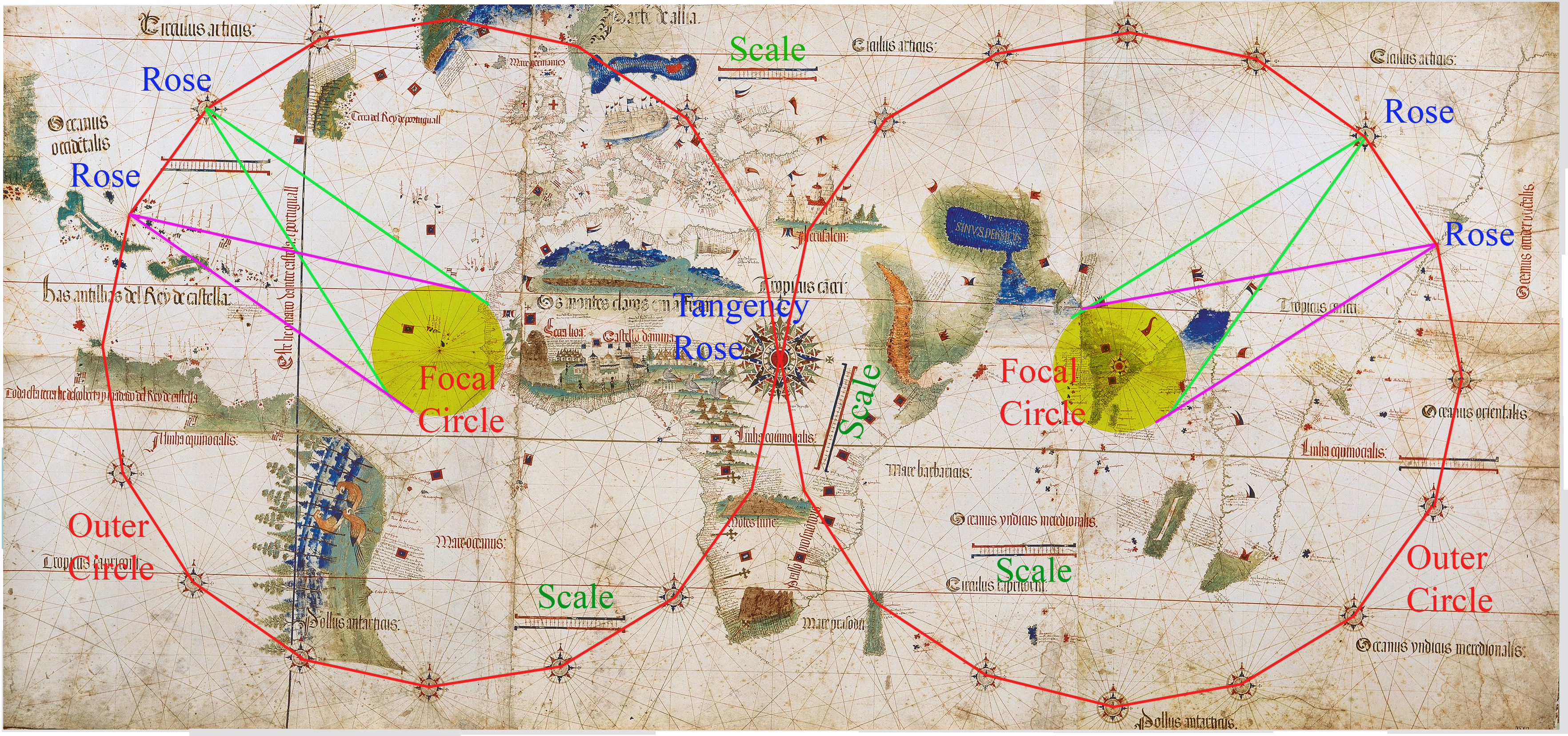 Illustration of the construction of the compass rhumb lines in the Cantino Planisphere (1502). The construction is based on two focal circles, the western circle centered on Cape Verde, the eastern circle in India. Each focal circle has an implied outer circle, which together cover most of the map. The circumference of each outer circle is ringed with sixteen equidistant 32-point compass roses - sometimes an elaborately drawn compass rose, sometimes a mere confluence of lines (when drawing would conflict with the coastal details). The western and eastern outer circles are tangent to each other at the rose in central Africa. The map also has several scattered scale bars to help measure distances (incuding an untypical diagonal bar for the coast of Mozambique).